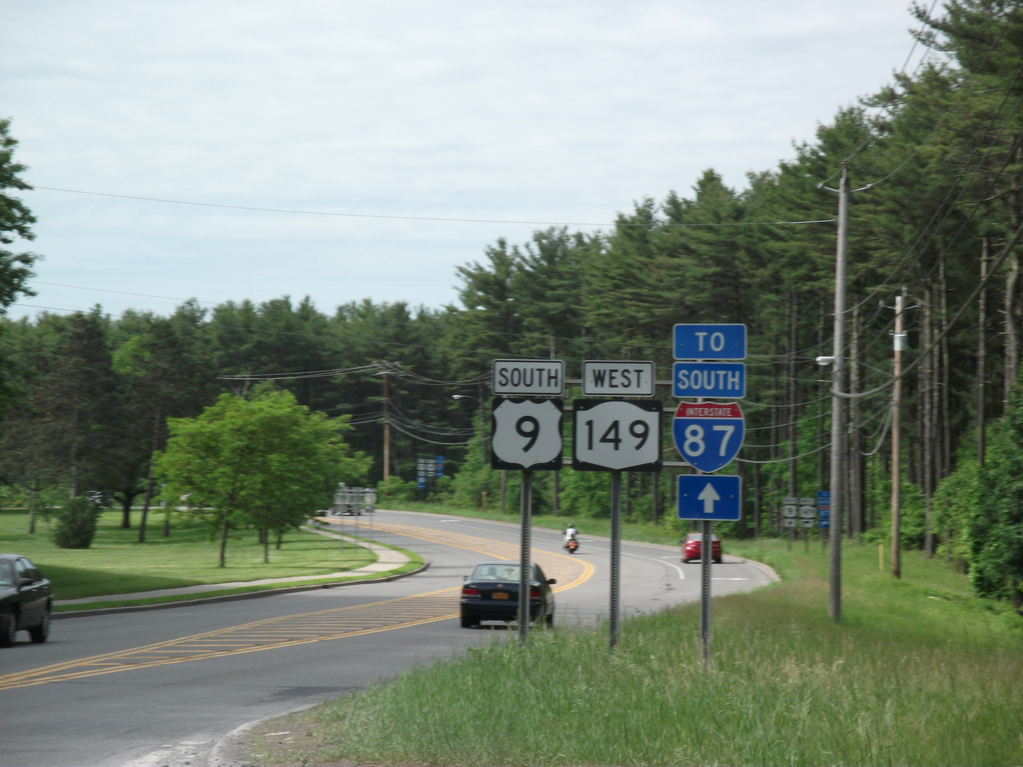 New York State Route 149 and U.S. Route 9 in Queensbury, New York